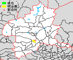 Map showing extent of former Kataoka District, Gunma, Japan